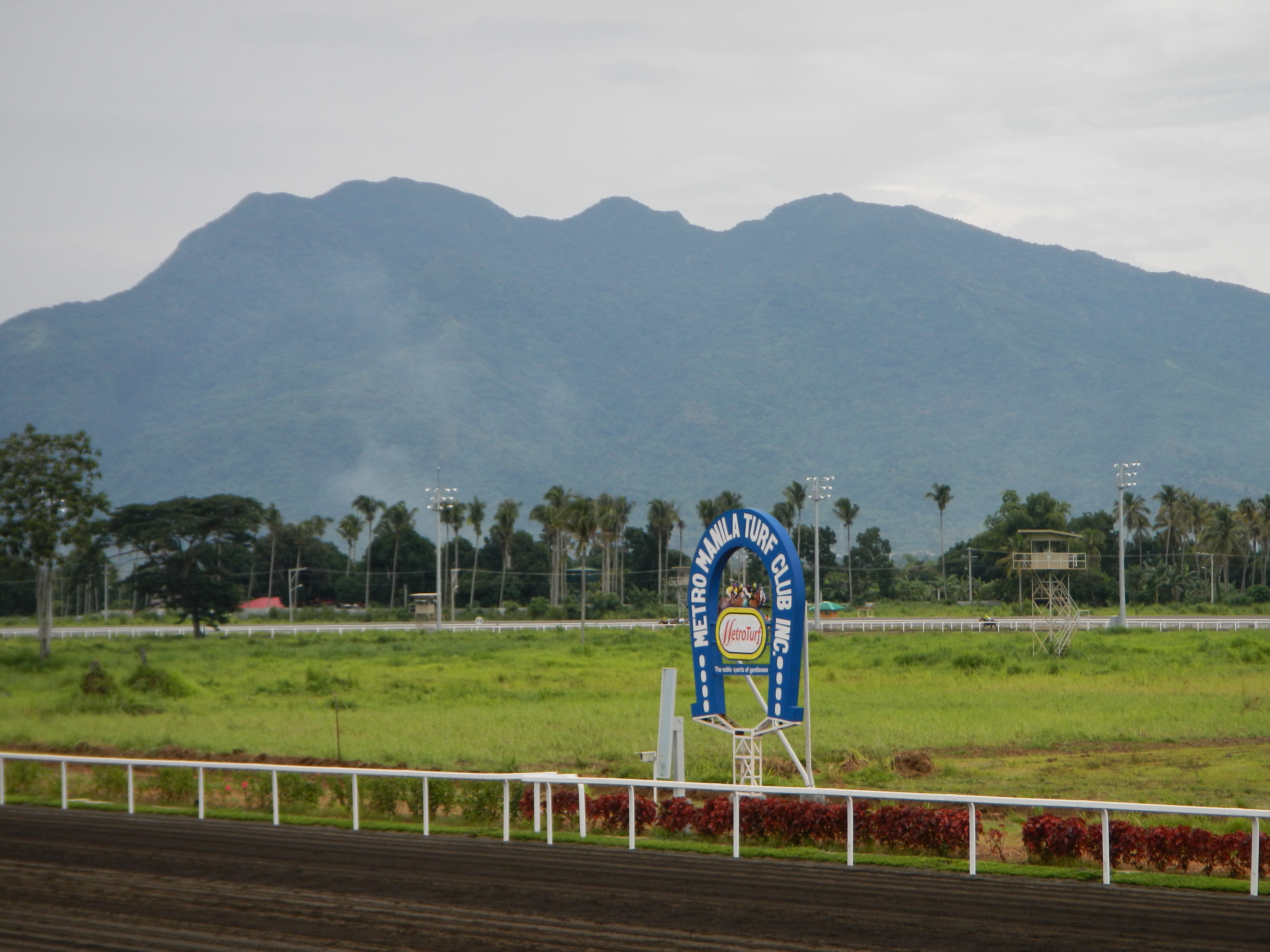 Metro Manila Turf Club Race Track (List of sports venues in Metro Manila[1]) -- Race track[2] -- Malvar, Batangas [3] --Website Official FB [4] World-class racetrack sets opening Metro Turf Club, Inc. Race Track, located on the boundary of Malvar town and Tanauan City, opened in February, 2013 with world-class facilities with majestic Mount Makiling [5] serving as backdrop is the third racetrack in the country after the San Lazaro Leisure Club in Carmona and the Santa Ana track in Naic, both in Cavite - constructed on a 45-hectare lot by renowned Singaporean racetrack builder K.K. Kumar. The racetrack is 1,525-meter long and has 4 chutes. Dr. Norberto Quisumbing, owns Metro Turf. 46 lighting posts—39 around the oval and 7 attached to the grandstand with General Electric technology and United Tote, gaming totalizator, with wide-screen LED televisions - Metro Turf can be accessed through the main entrance at the President J.P. Laurel Highway in Malvar. New racetrack to open in Batangas January 19, 2013 -- Malvar, Batangas [6] is a second class municipality in the Province of Batangas[7], Philippines. As of 2009, the population of Malvar was 41,270 and the total number of households was 8,678. The municipality was named after General Miguel Malvar[8], the last Filipino General to surrender to the American Government in the Philippines in 1902.[9] Geographical location: Batangas, Region 4, Philippines, Asia geographical coordinates: 14° 2' 41" North, 121° 9' 31" East [10] Coordinates: 14°1'55"N 121°8'42"E